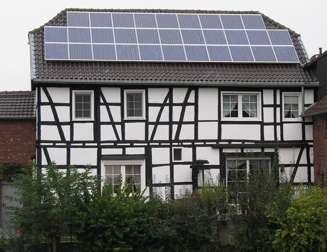 Timber framed house with a photovoltaic array of solar panels in Buschhoven near Bonn, Germany